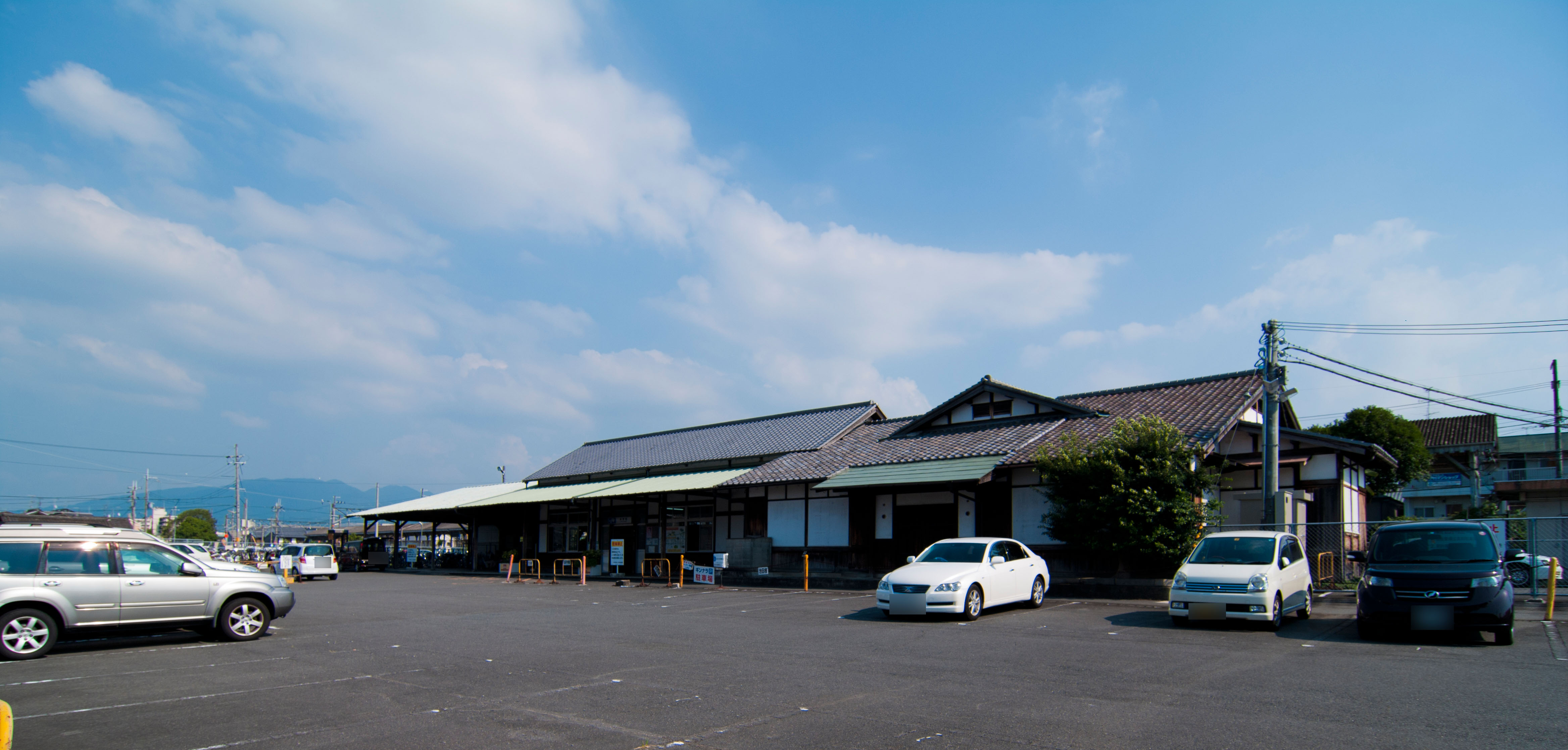 Unebi Station on Sakurai Line